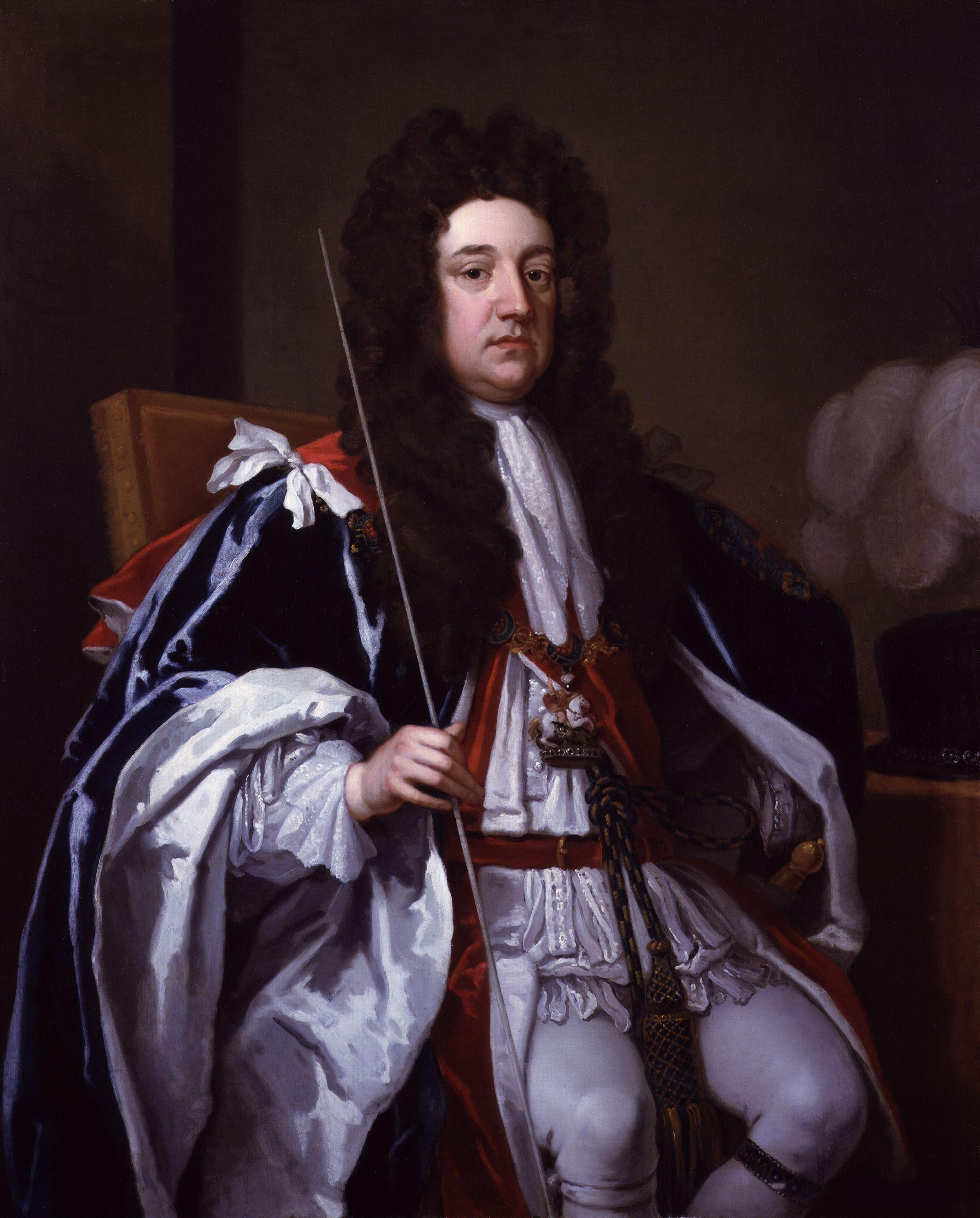 Sidney Godolphin, 1st Earl of Godolphin, by Sir Godfrey Kneller, Bt (died 1723). All images in this batch have been confirmed as author died before 1939 according to the official death date listed by the NPG.